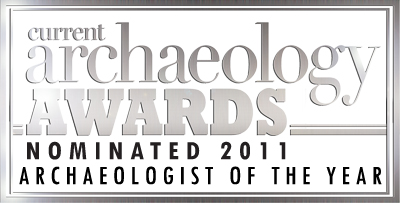 Logo for Archaeology Awards, Archaeologist of the Year 2011